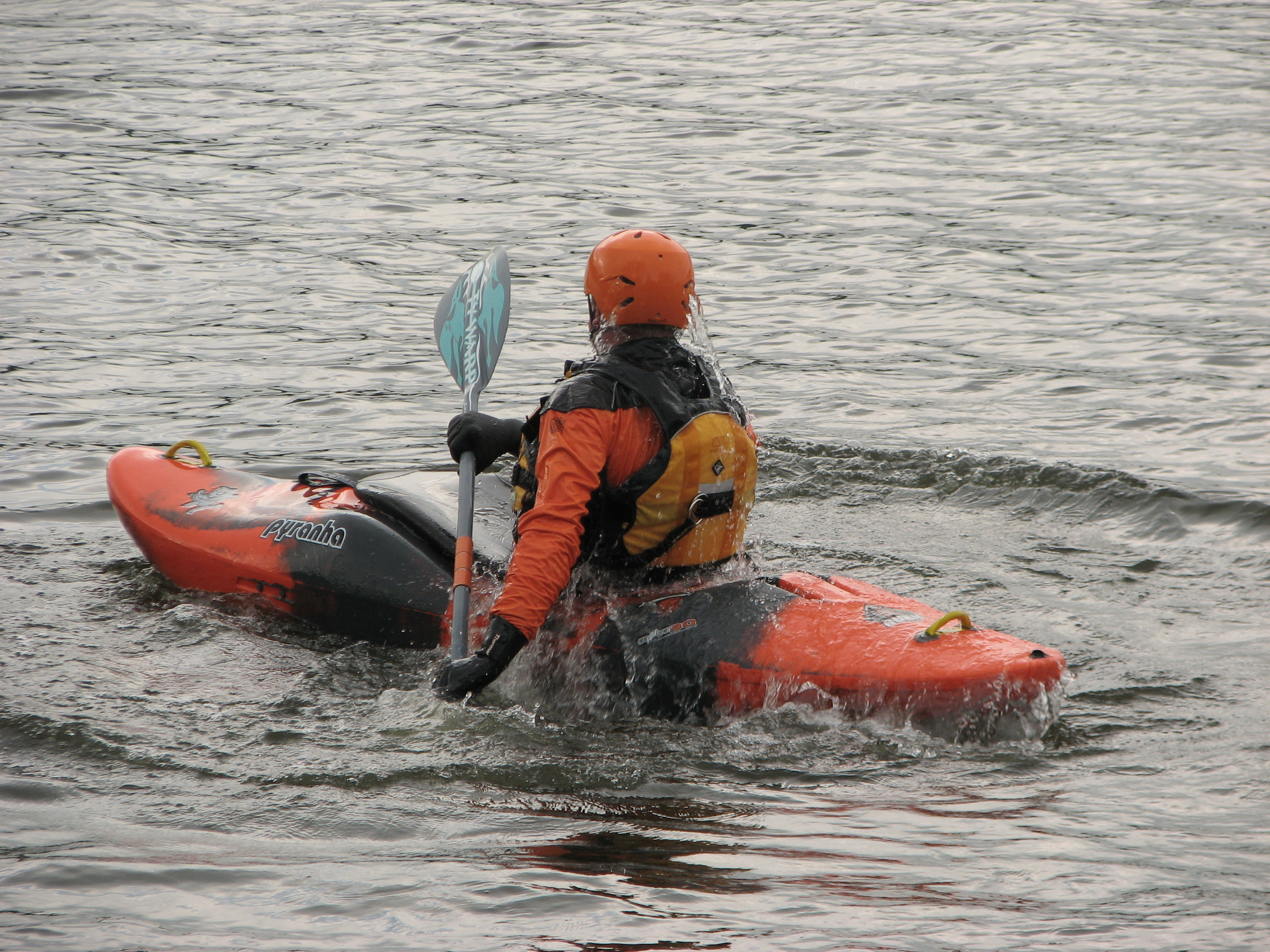 A kayaker on the Brno dam lake right after the kayak roll. Česky: Kajakář na brněnské přehradě po eskymáckém obratu.